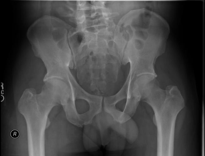 Normal pelvis plain photograph, except some minor enthesophytes on the inferior pubic ramus.